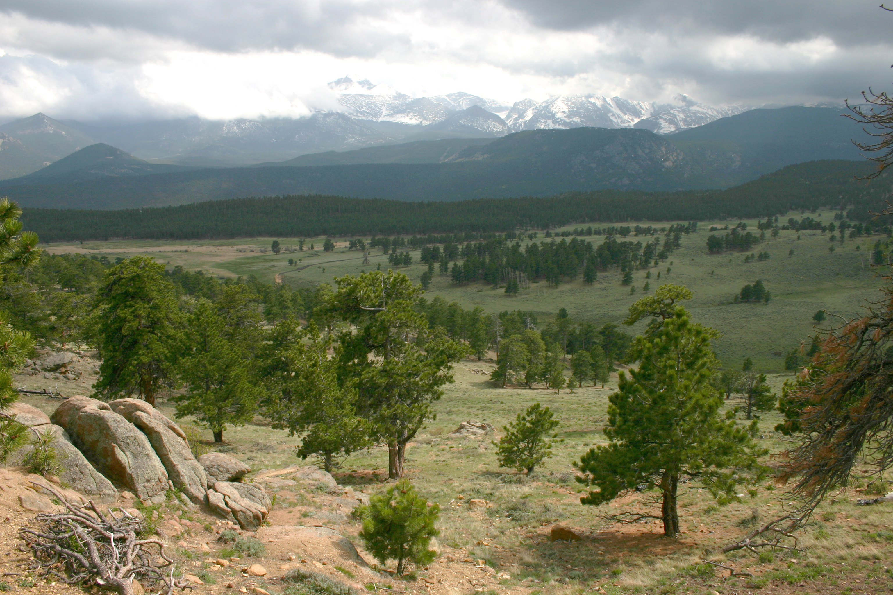 View from near Bear Lake Road, Rocky Mountain National Park, Colorado. View of open Pinus ponderosa forest